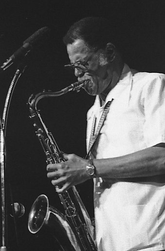 In concert with Dizzy, Colonial Tavern, Toronto, Aug. 19/1978